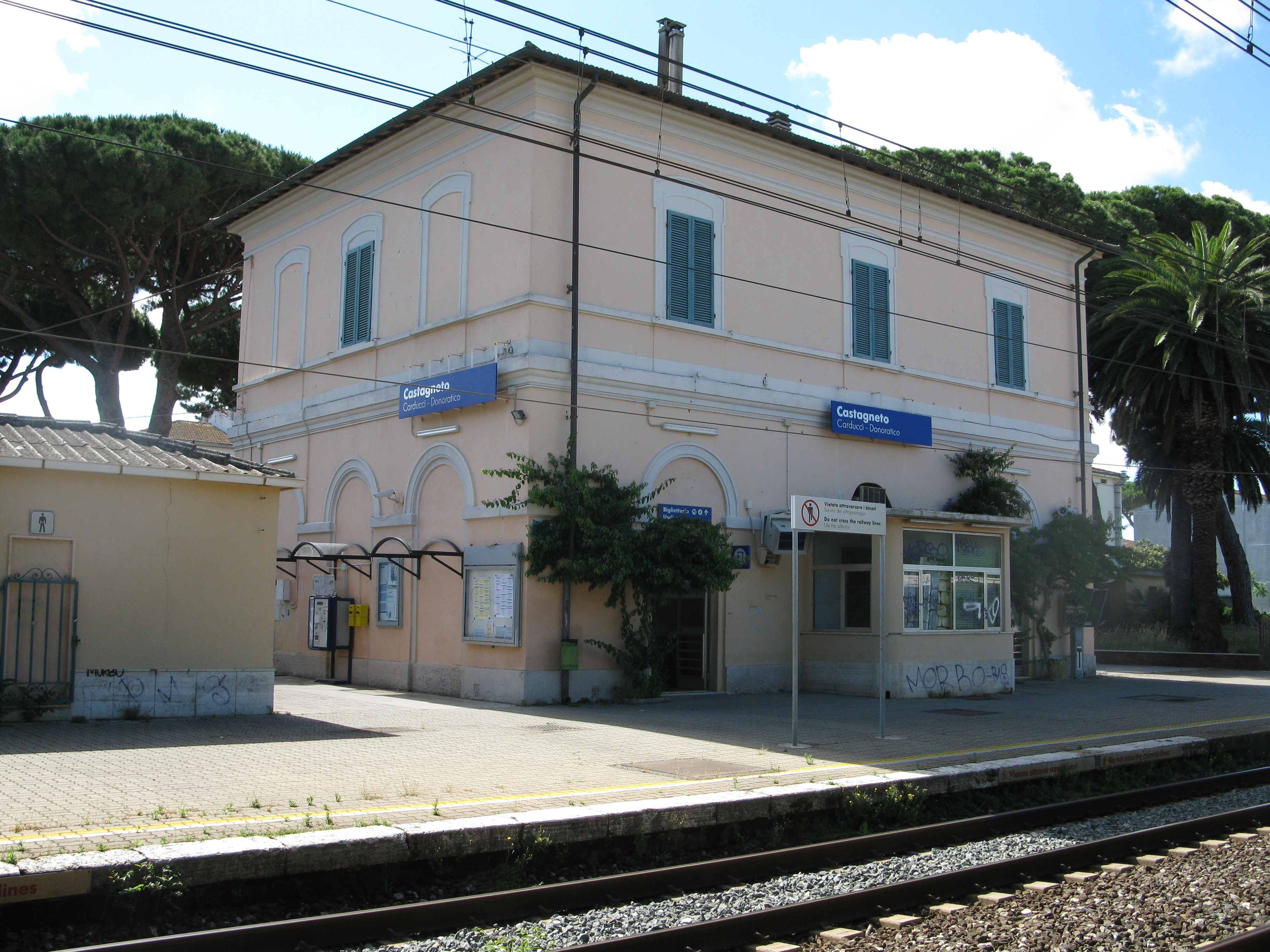 Castagneto Carduccci-Donoratico railway station, view of the station building from platform 2